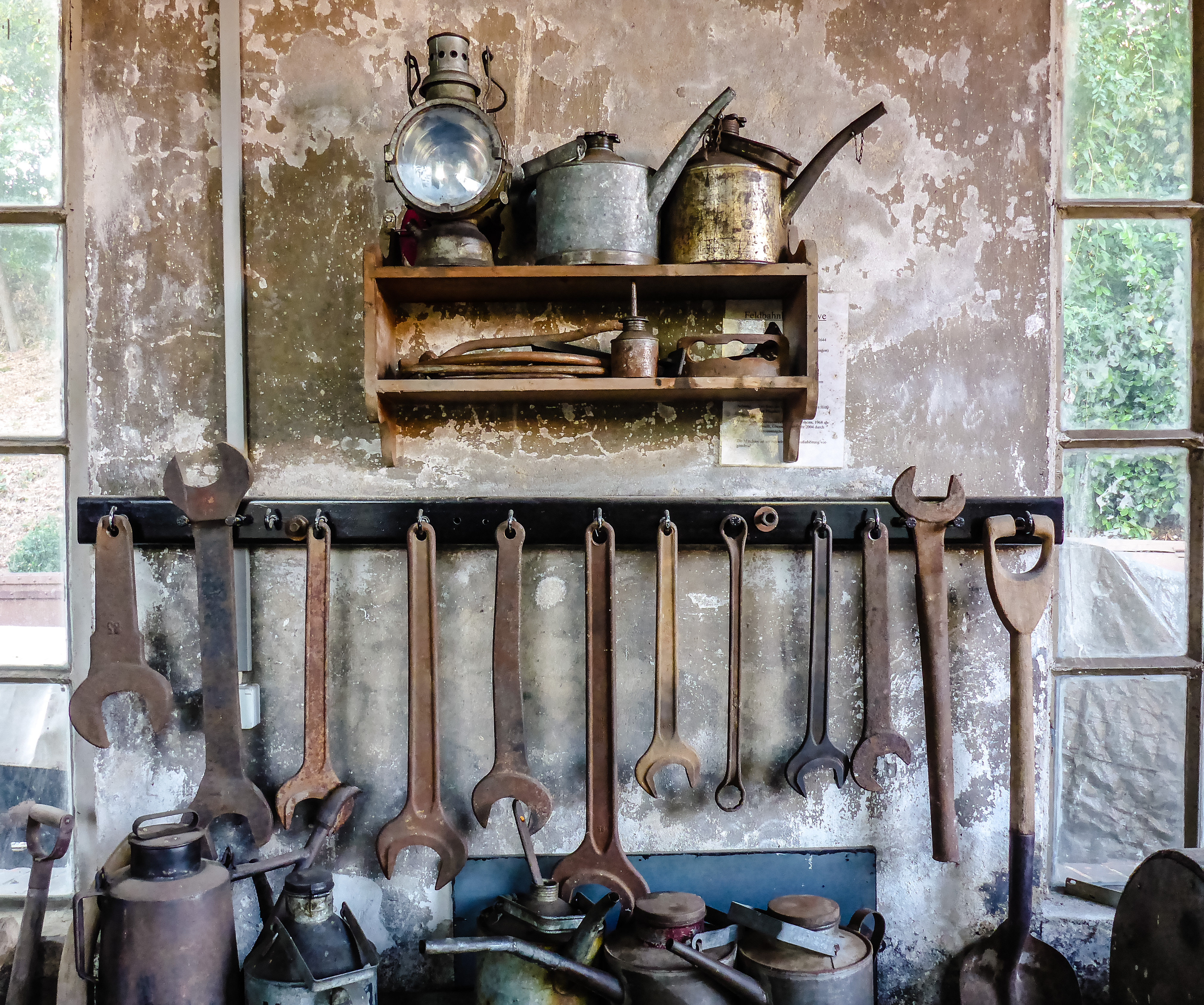 Heavy tools and spanners hanging in the locomotive shed of the / in Germany. Seen during the fifteenth anniversary weekend. "aufgeräumte Werkzeugsammlung im Lokschuppen des Feldbahnmuseums Wiesloch, 2016"